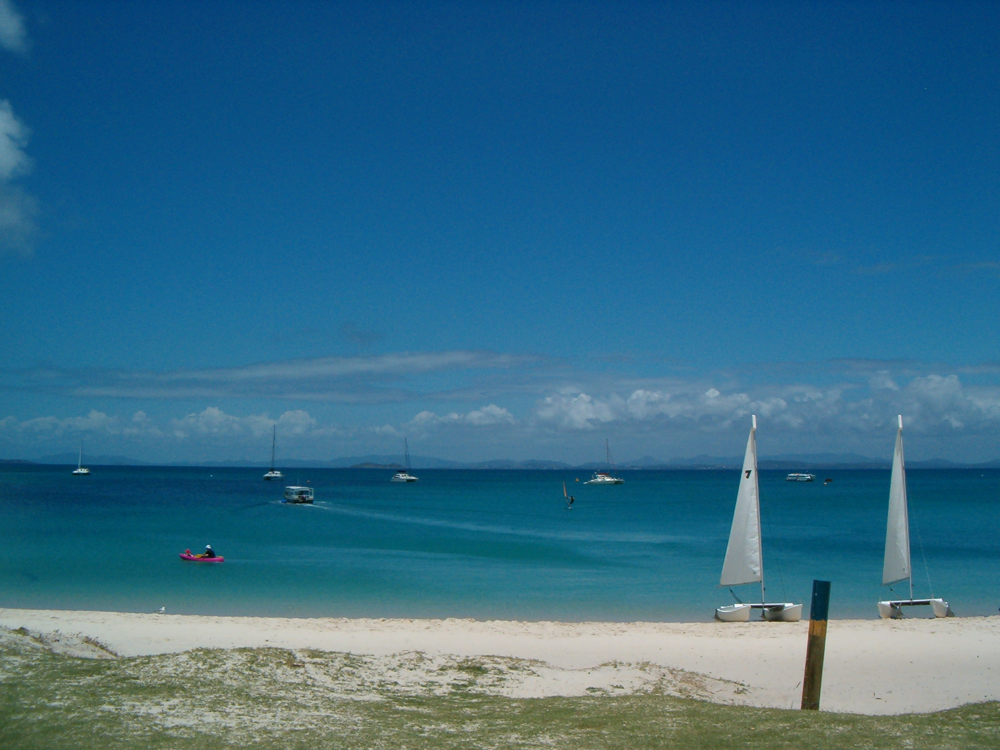 Plage principale de Great Keppel Island